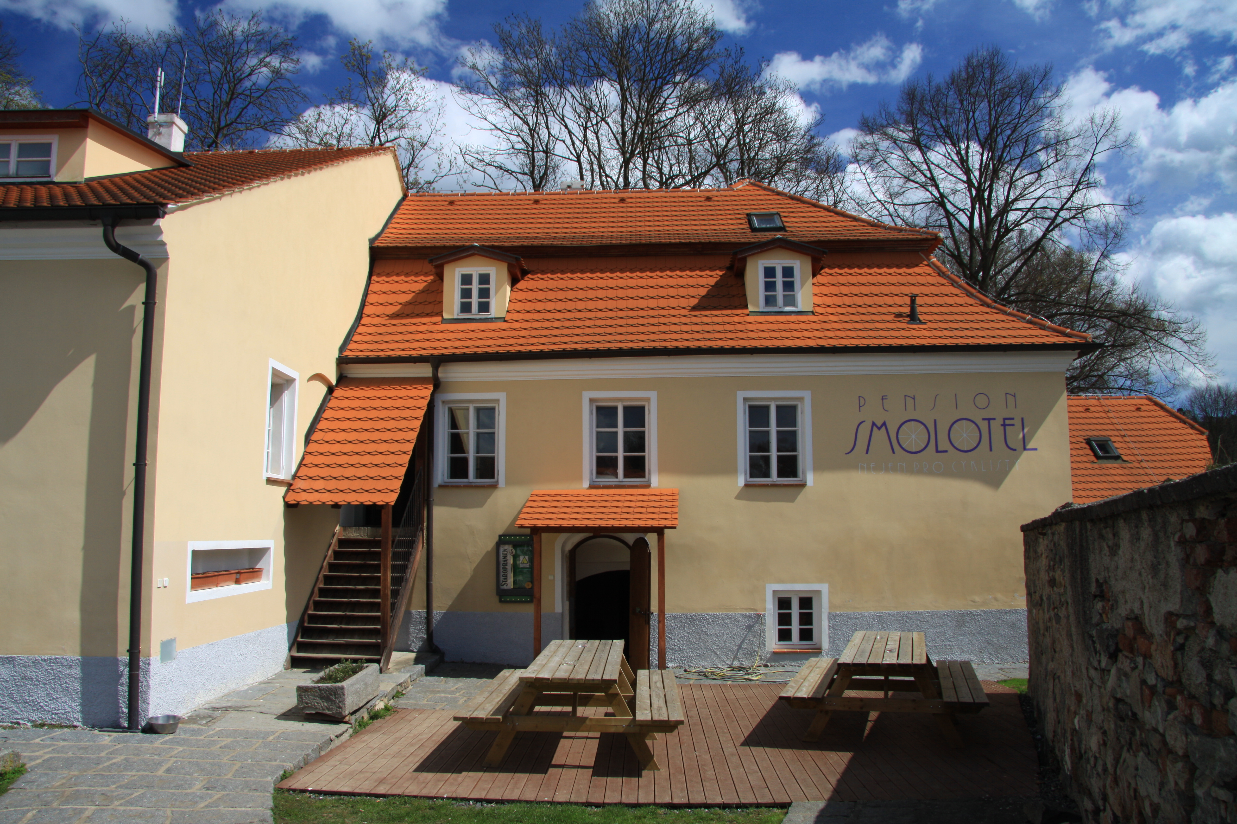 Former brewery, nowday Pension Smolotel in Smolotely village in Příbram District, Czech Republic